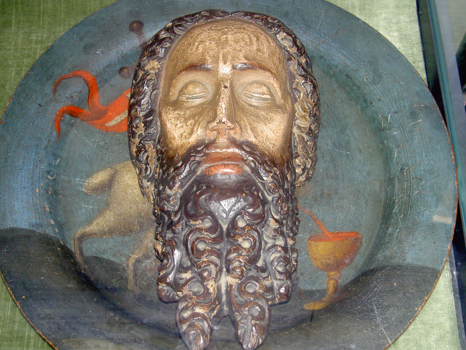 Head of Saint John the Baptist on a plate, a so called Johannisschüssel, (~1400) from St. John's Priory in Schleswig